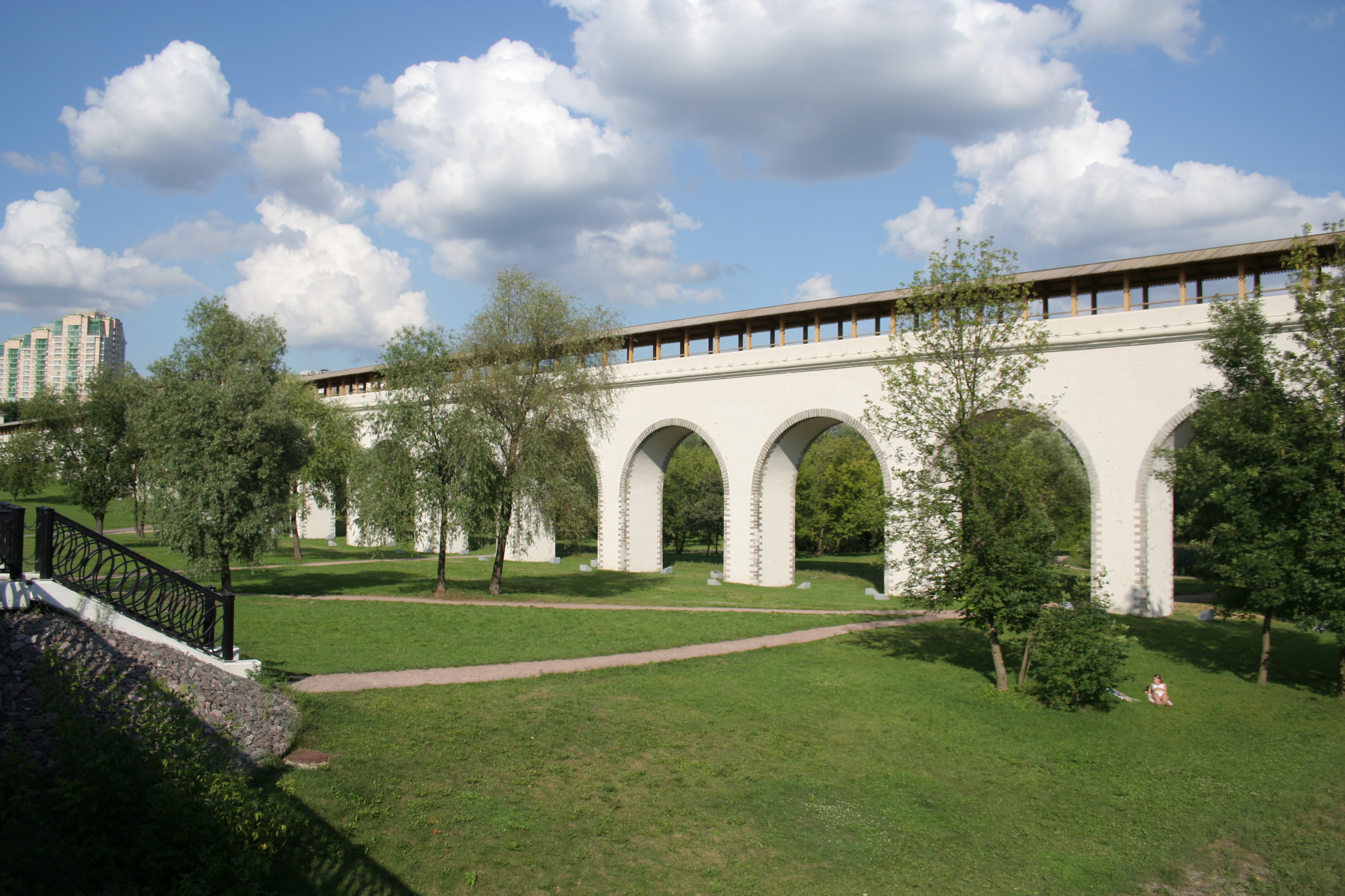 The historical Rostokino Aqueduct in Moscow